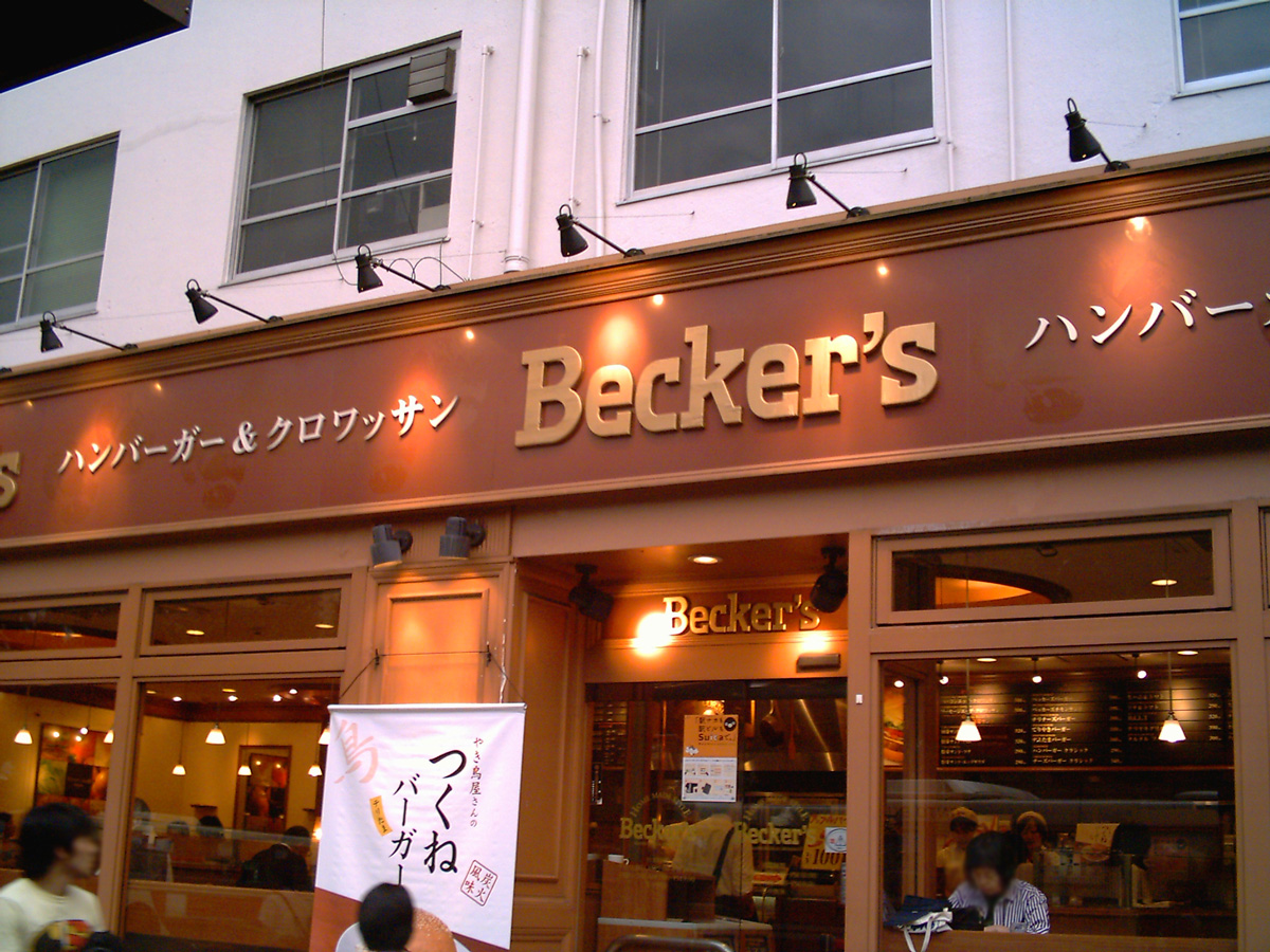 BecKer's_Restaurant_musashino City japan photography day, 2006.9.29. photography person kici